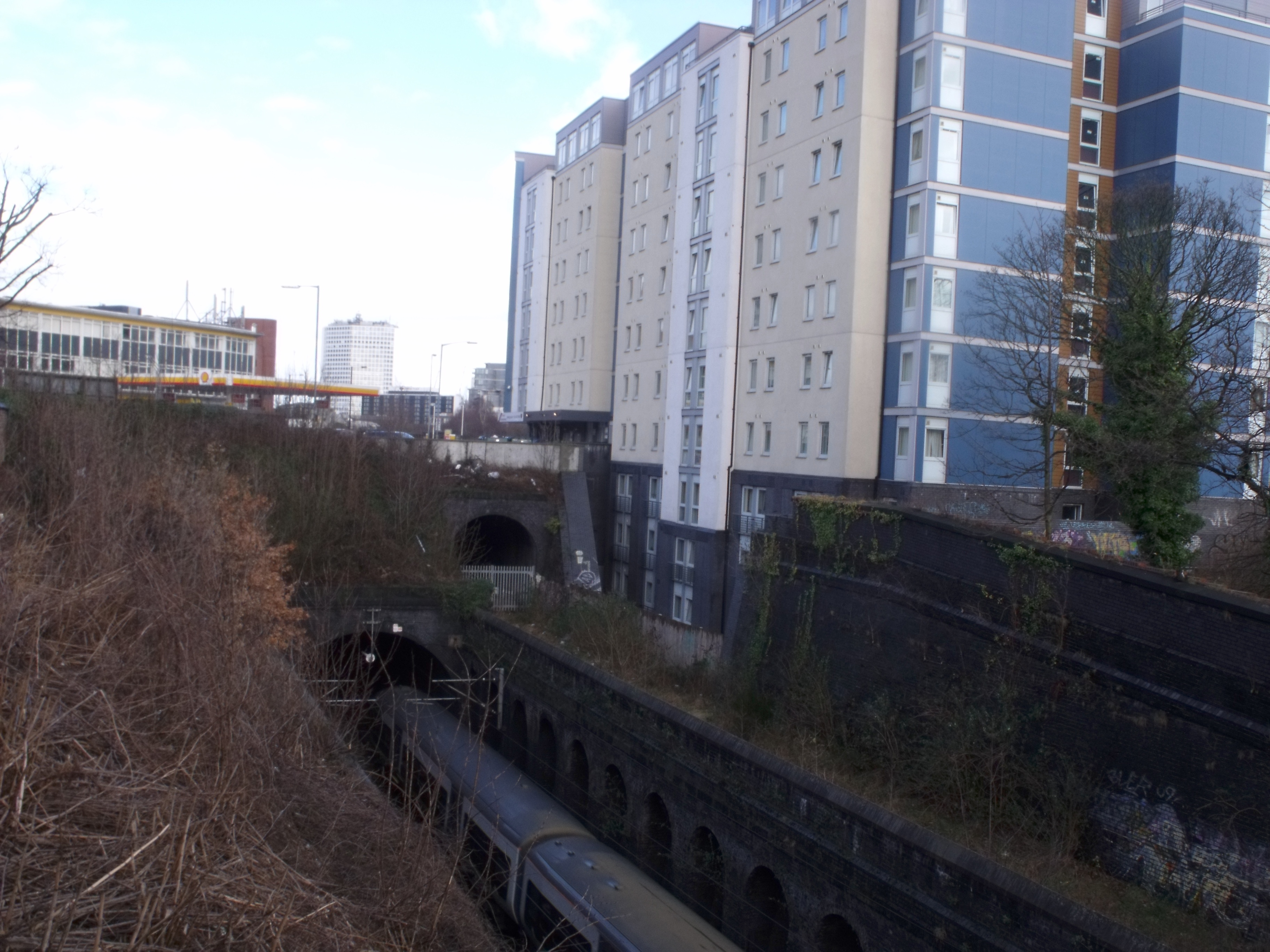 The other side of Islington Row Middleway. Then onto Bath Row. The new building is IQ Five - new student accommodation. Seems a bit too close to the railway line. A London Midland train passes through here. Think it's another Class 170 but am not sure.